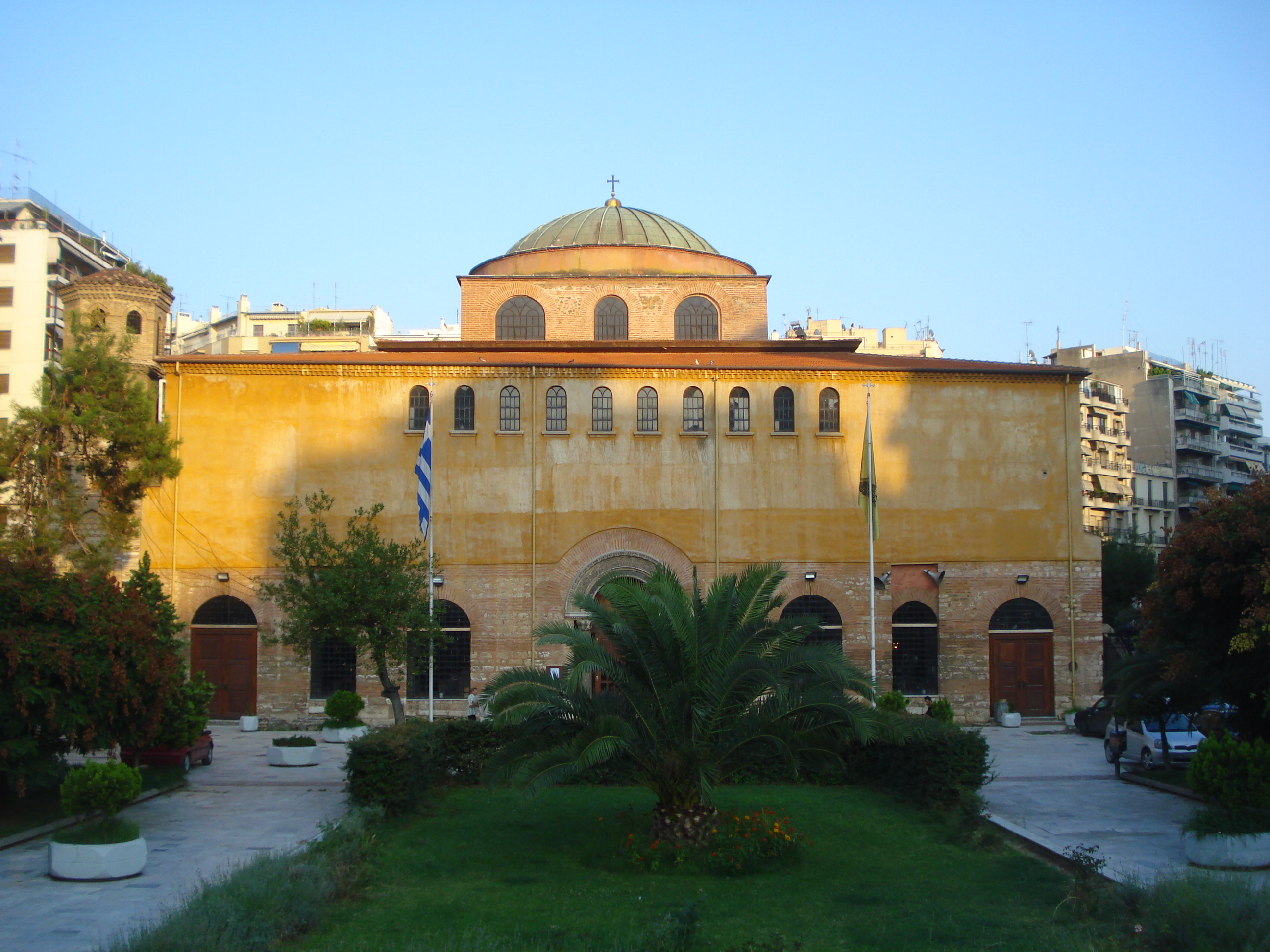 The church of Ayia Sofia in Thessaloniki